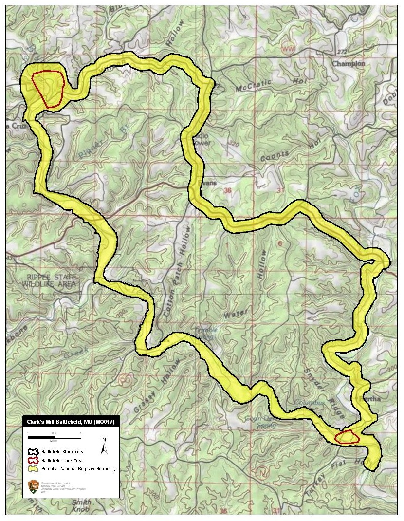 Map of battlefield core and study areas. The CWSAC did not establish complete Study and Core Areas for Clark’s Mill in 1993. The newly drawn Study Area includes the Confederate advance along the creek bed of Bryant's Creek, and the Union retreat from Bryant's Creek along the Old Vera Cruz Road to Vera Cruz and the blockhouses at Clark's Mill. The lower Core Area represents the drive of the Confederate vanguard south of Vera Cruz along Bryant's Creek. The upper Core Area represents the artillery duel and skirmishing around Clark's Mill itself.